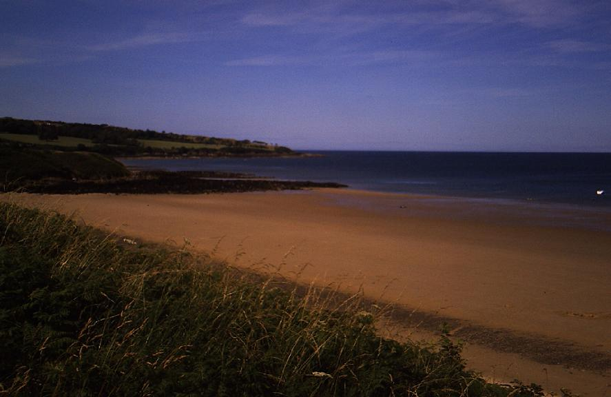 Traeth Dulas, Dulas Bay, north eastern Anglesey.